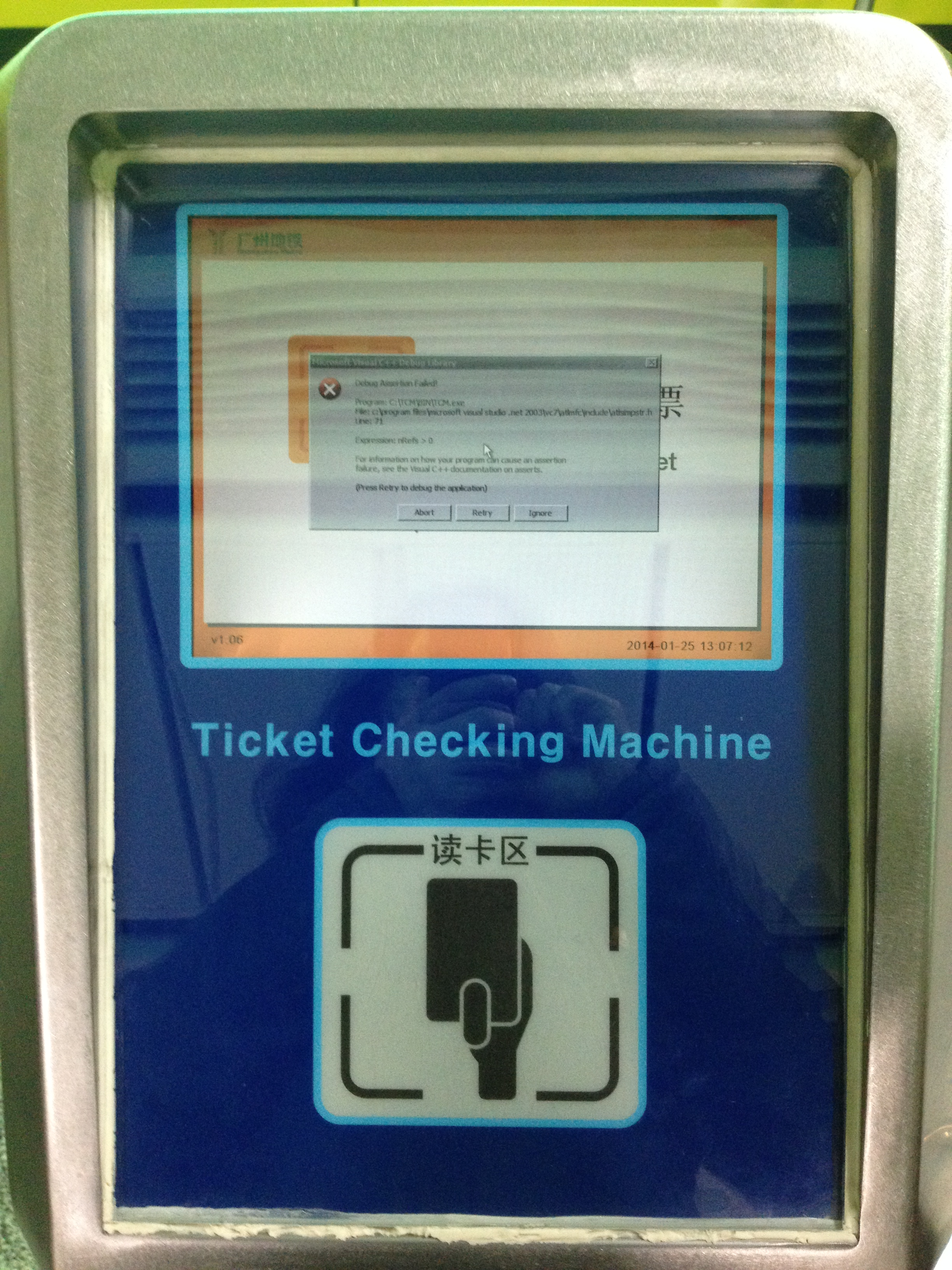 Guangzhou metro ticket machine failure